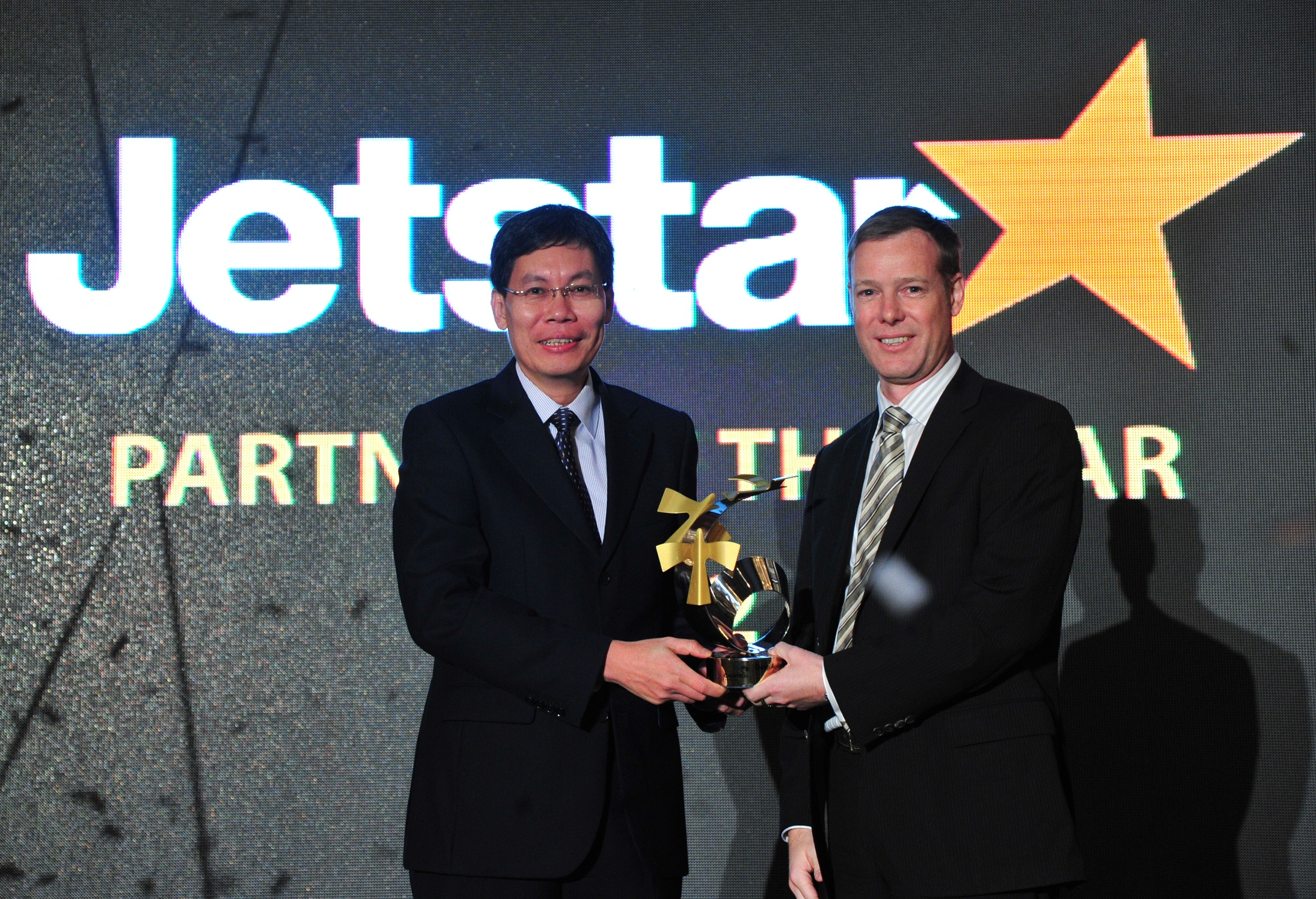 Lui Tuck Yew, Minister for Transport and Second Minister for Foreign Affairs, giving the "Partner of the Year" award to Paul Daff, Acting CEO of Jetstar Asia Airways, at the Changi Airline Awards ceremony in Singapore.